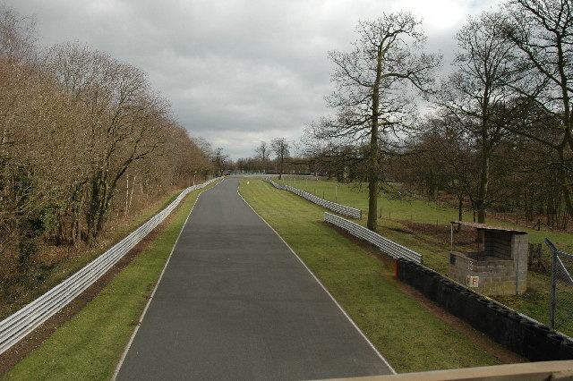 Oulton Park. Part of the motor racing circuit at Oulton Park as viewed from Warwick Bridgeand looking towards Lodge Corner.